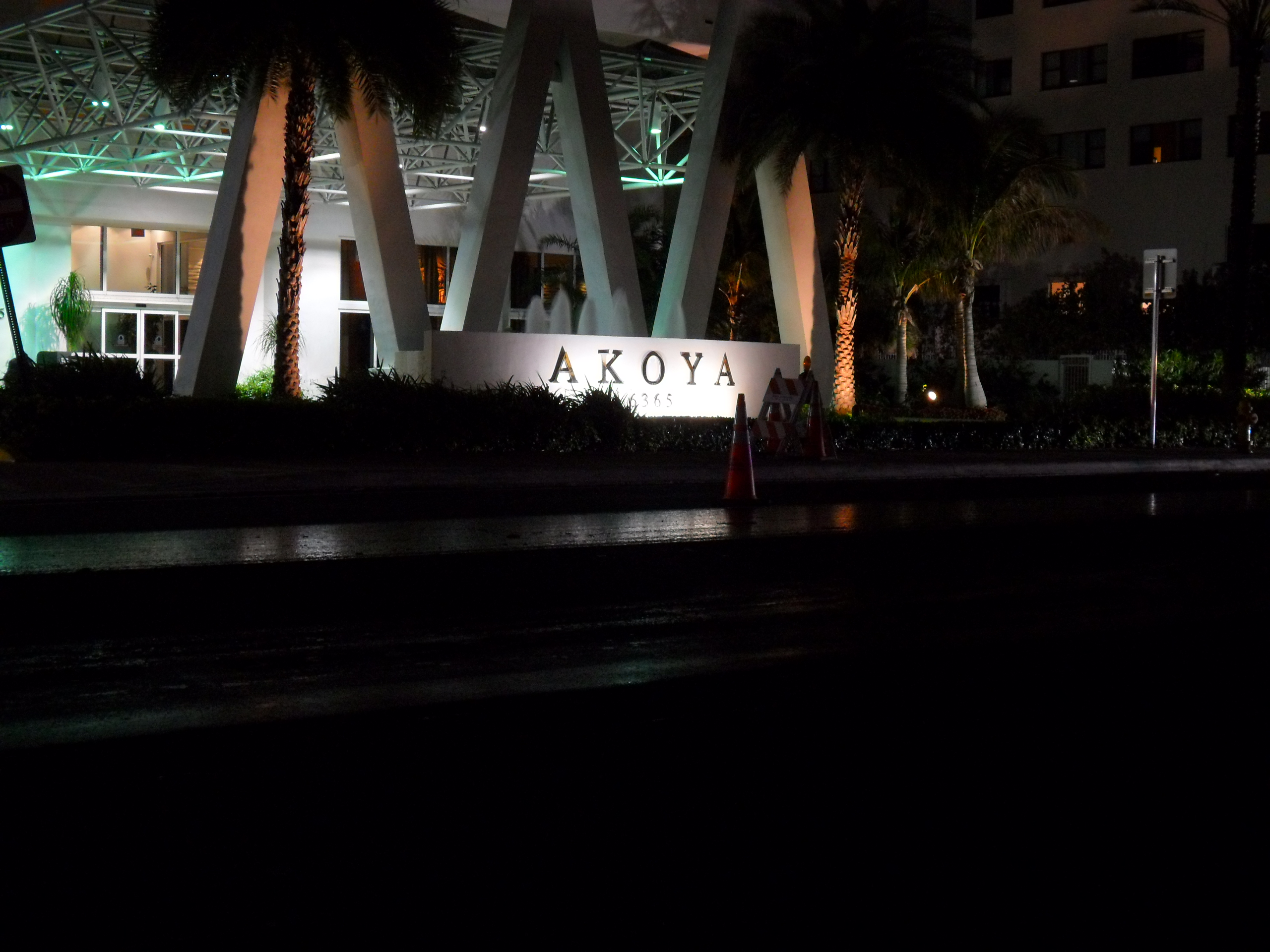 Front of Akoya Condominiums in Miami Beach at night.